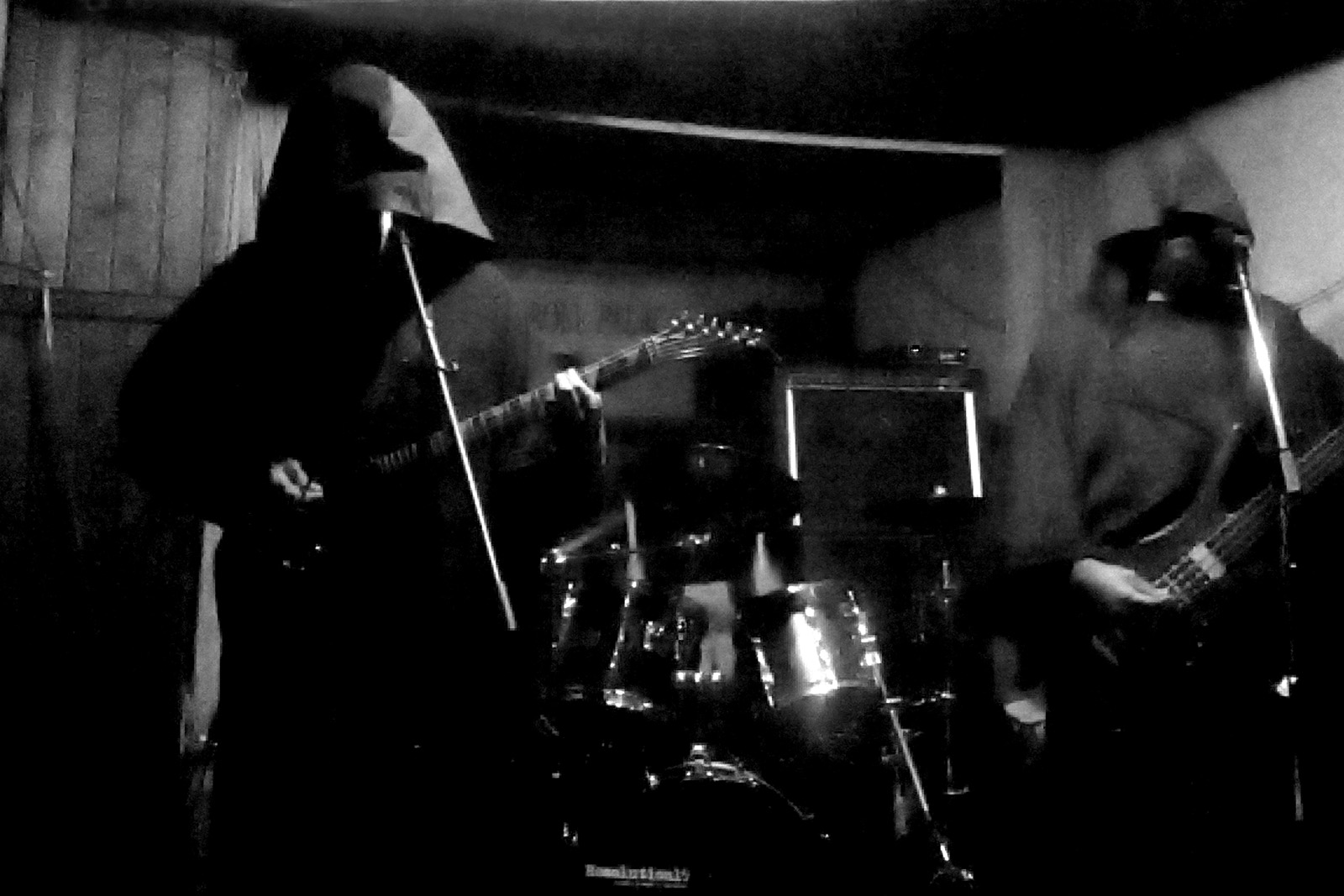 Thantifaxath, Milwaukee, WI, May 2015